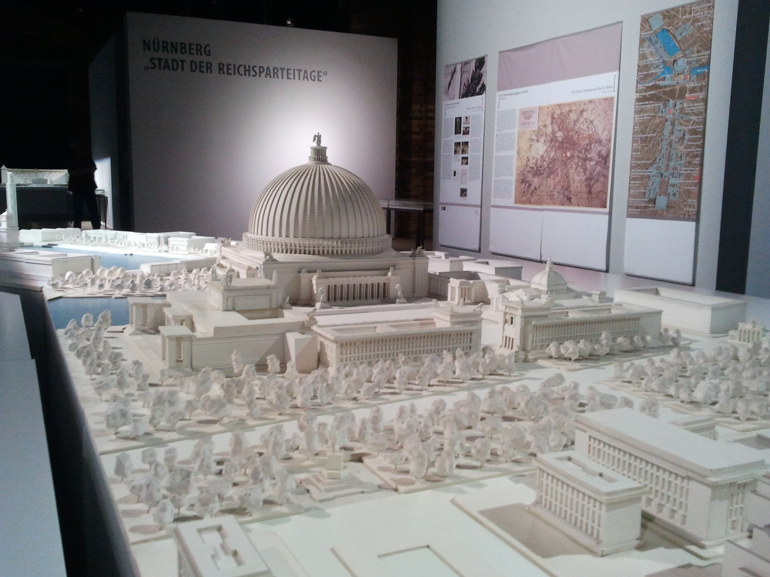 Model of the Große Halle (also called Ruhmeshalle or Volkshalle). The entire architectural model is composed of three parts resp. segments: The central part (from the triumphal arch to the Volkshalle) was built for the 2004 movie Downfall (Oliver Hirschbiegel) and is not a fully accurate realization of the Generalbauinspektor's plan. For the 2005 movie "Speer und Er" (Heinrich Breloer) the model was expanded with the significantly more precise southern and northern railway stations and its forecourts. Part of the Myth "Germania" and the "Temple City" of Nuremberg exhibition at the Documentation Center in Nuremberg (April 7, 2011 - September 11, 2011).